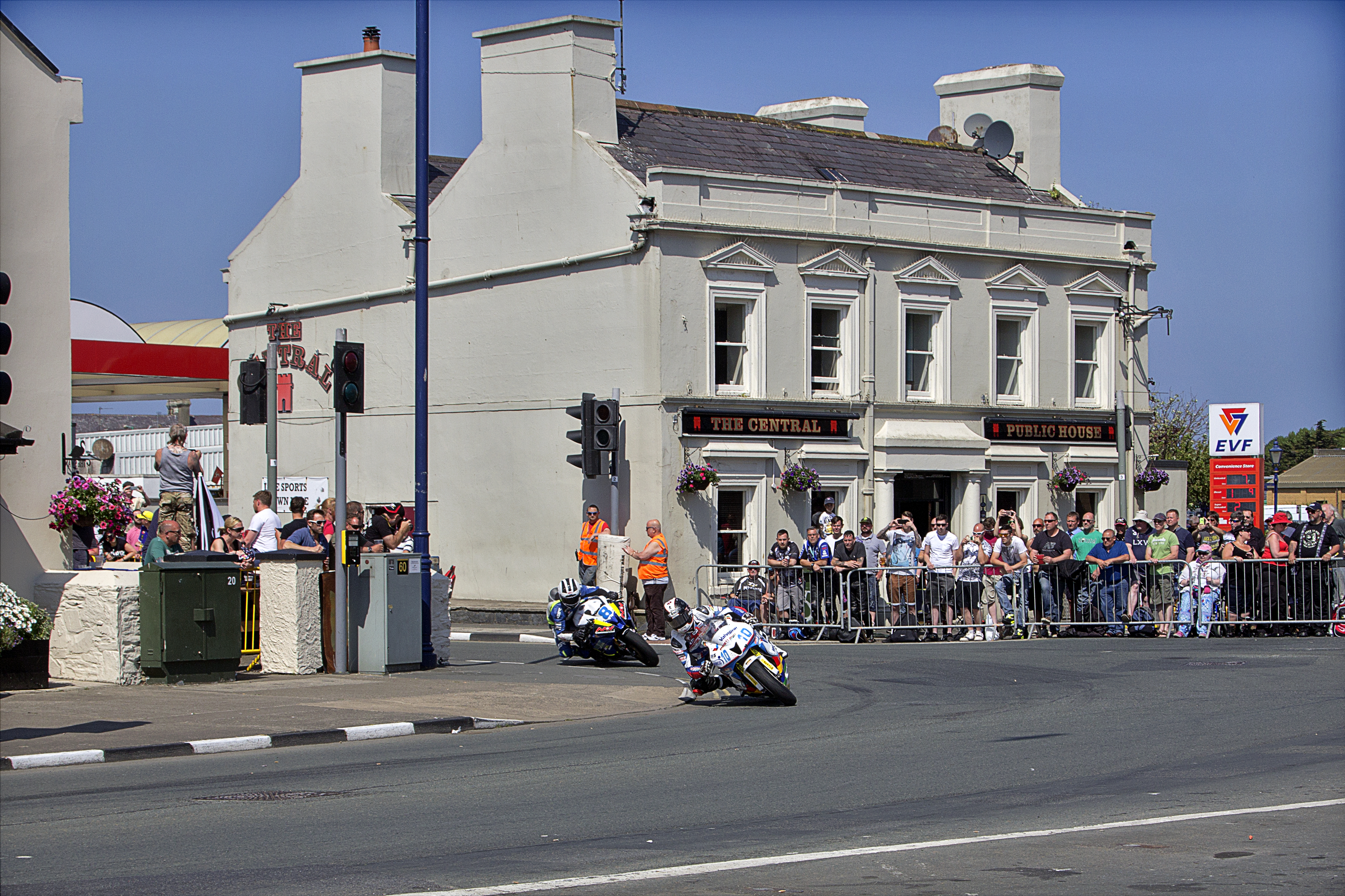 Supersport race 1 competitors entering Parliament Square, Ramsey, Isle of Man during TT race week in 2016